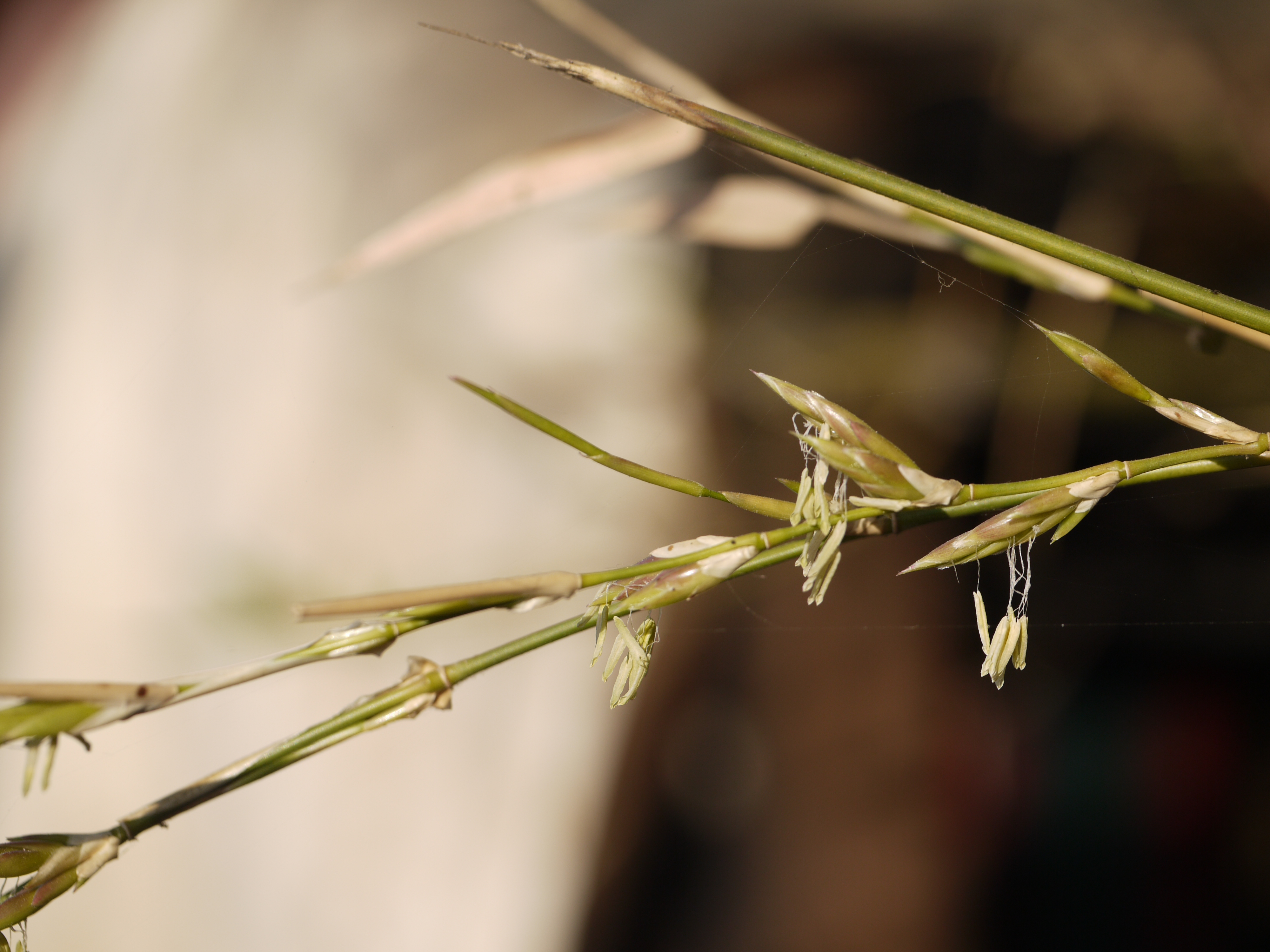 Poaceae » Bambusa bambos bam-BOO-suh -- a name for bamboo; an erroneous pronunciation of the Indian word bambu ... Dave's Botanary BAM-boz -- perhaps, derived from the Indian name bambu for bamboo a-run-din-uh-KEE-uh or a-run-din-uh-SEE-uh -- like a reed ... Dave's Botanary commonly known as: giant thorny bamboo, Indian thorny bamboo, male bamboo, spiny bamboo, spring bamboo • Assamese: জাতি-বাঁহ jaati baansh, মোকাল-বাঁহ mokal baansh • Bengali: বাঁশ baansha • Gujarati: બામ્બુ baambu, વાંસ vaans • Hindi: बांस baans, बम्बू bambu, बंस buns • Kannada: ಬಿದಿರು bidiru, ವಂಶ vamsha • Kashmiri: बैँस् bains, बाँस् bons, वंशः vanshah • Konkani: वासो vaaso, वसो vaso, वेलु velu • Malayalam: മുള mula • Manipuri: সনৈবী saneibi • Marathi: बांबू baamboo, कळक kalaka, कळंक kalanka, माणगा maanga, वेळू velu • Nepalese: काँस् kauns • Oriya: ବାଉଁଶ baunsa • Punjabi: ਮਗਰ ਬਾਂਸ magar baans • Sanskrit: आमुपः amupah, आर्द्रपत्रकः ardrapatrakah, कण्टकः kantakah, कण्टकिलः kantakilah, वम्भः vambhah, वंशः vamsh • Tamil: குழாய்மூங்கில் kulay-munkil, பெருமூங்கில் peru-munkil • Telugu: బొంగువెదురు bongu-veduru, వంశము vamsamu, వెదురు veduru • Urdu: بانس baans, بمبو bambu, نبس buns Native of: China, Indian subcontinent, Indo-China; cultivated in tropical Asia References: Flowers of India • Ayushveda • Purdue University • NMBA • NPGS / GRIN • ENVIS - FRLHT • DDSA